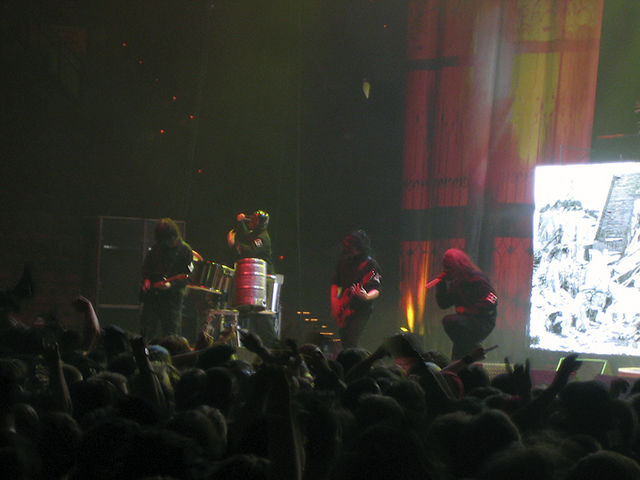 Slipknot performing live in Wisconsin in 2005.